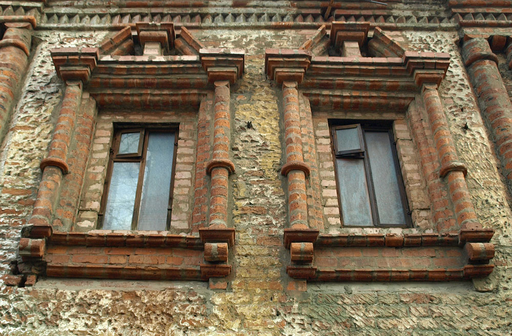 Moscow, Kolpachny Lane, 10 (courtyard facade of Mazepa Chamber) - second floor windows.